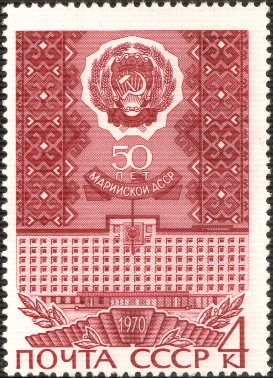 USSR stamp: Mari Autonomous Soviet Socialist Republic (Established on 1920.11.04). Series: 50th Anniversary of the Autonomous Republics of the Soviet Union